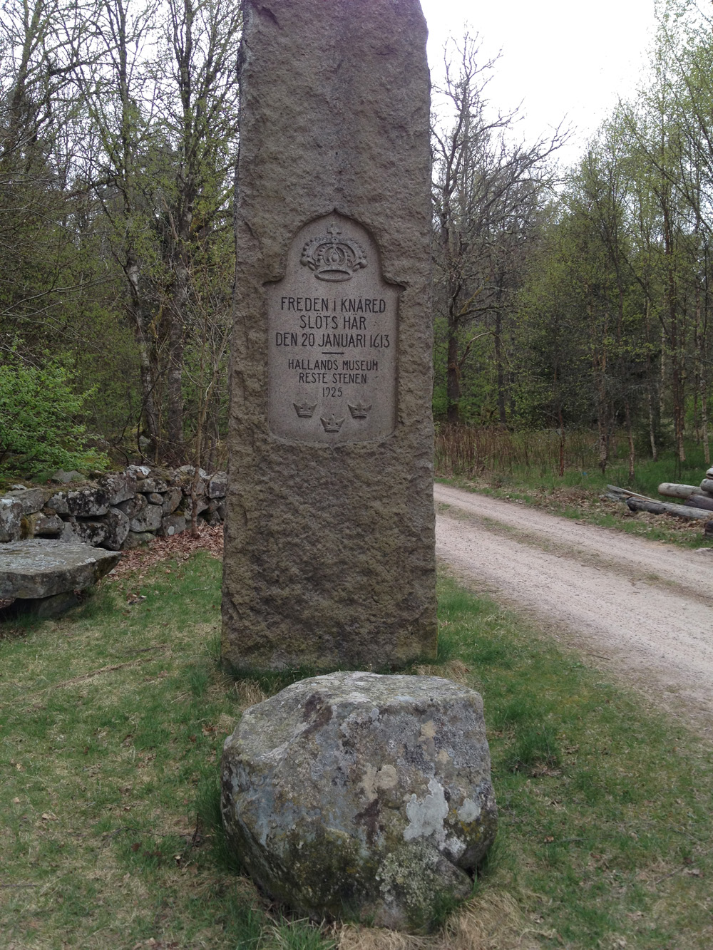 Memory stone over the Knäred Peace Agreement in 1613 erected in 1925 by Hallands museum